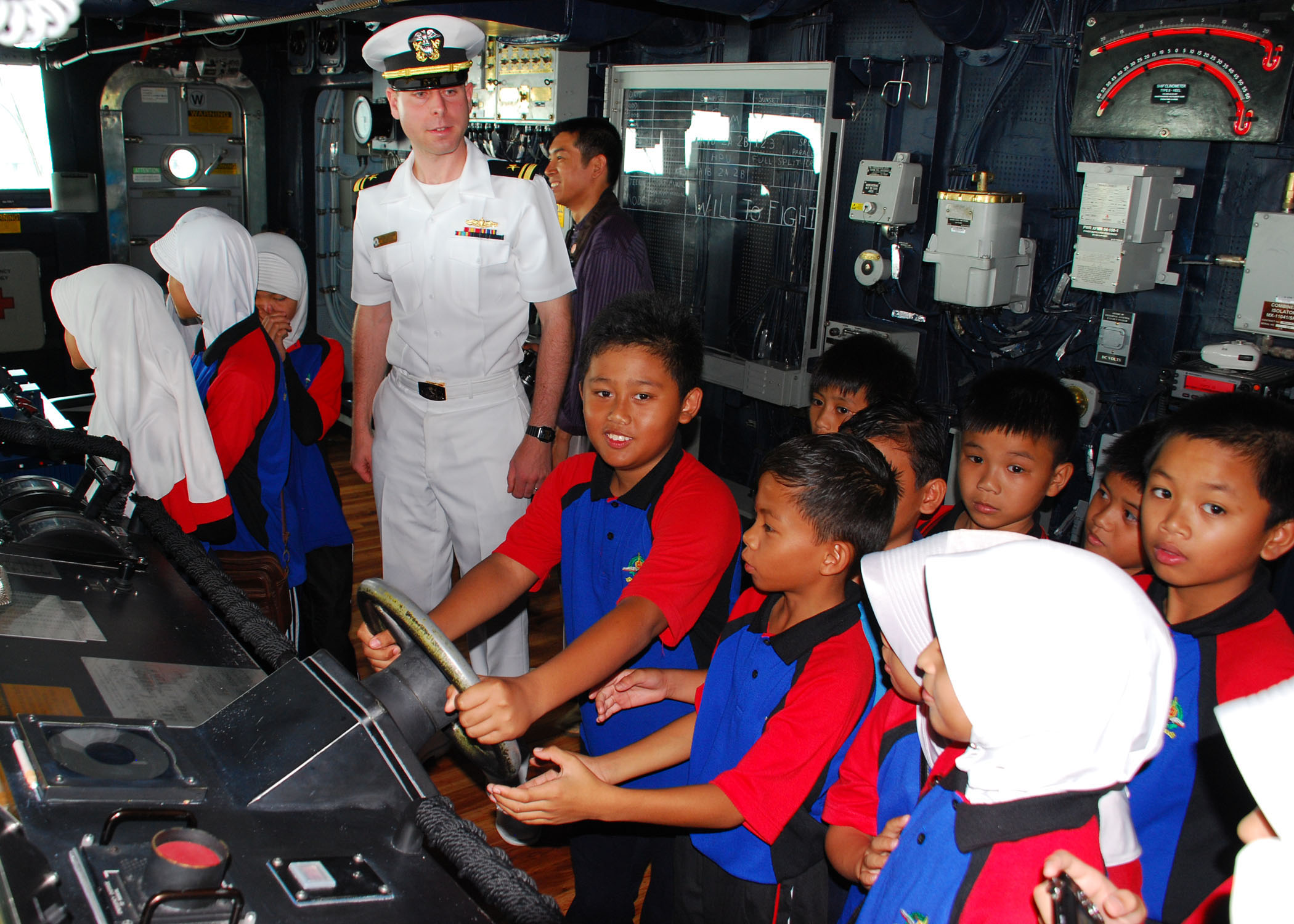 MUARA, Brunei (Oct. 4, 2011) Lt. j.g. Artemas Richardson, a public affairs officer aboard the Arleigh Burke-class guided-missile destroyer USS Dewey (DDG 105), watches 5th grade students from Royal Brunei Navy Primary School operate the ship's steering console during a tour of the bridge. The tour was part of Cooperation Afloat Readiness and Training (CARAT) Brunei 2011. CARAT is a series of bilateral exercises held annually in Southeast Asia to strengthen relationships and to enhance force readiness. (U.S. Navy photo by Lt. Cmdr. Mike Morley/Released)